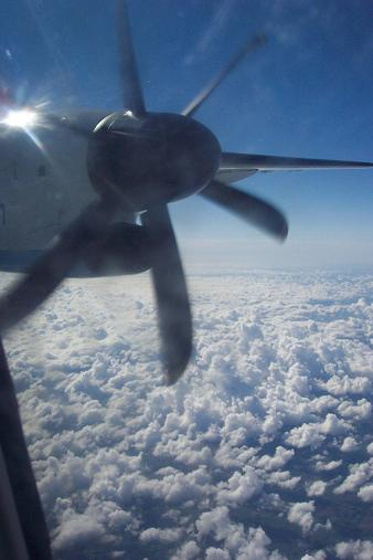 A Bombardier Q400 dash 8 propeller seen enroute from Paris to London